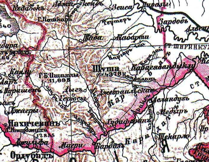 Map of the Southern Karabakh